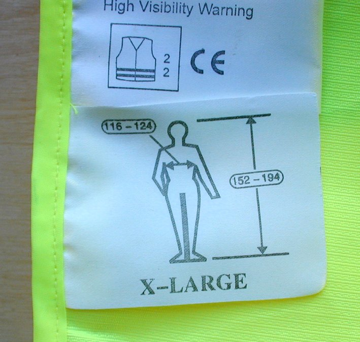 Example of a clothes-size label with body dimensions according to EN 13402-1, found on a high-visibility jacket sold in the UK.